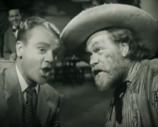 James Cagney (left) & James Barton in The Time of Your Life - cropped screenshot